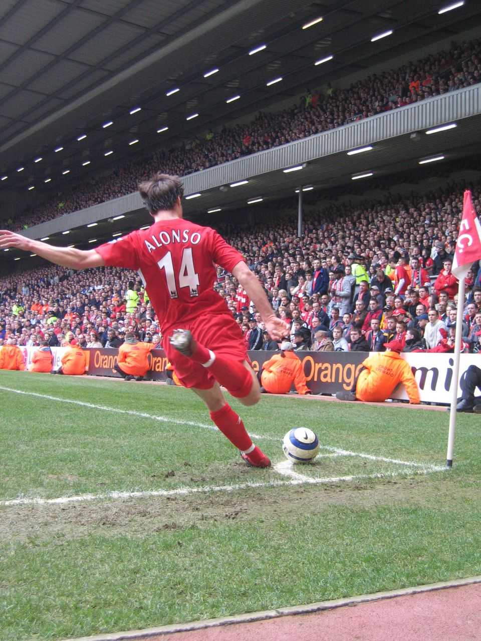 Xabi Alonso, Liverpool F.C. footballerThe corner...